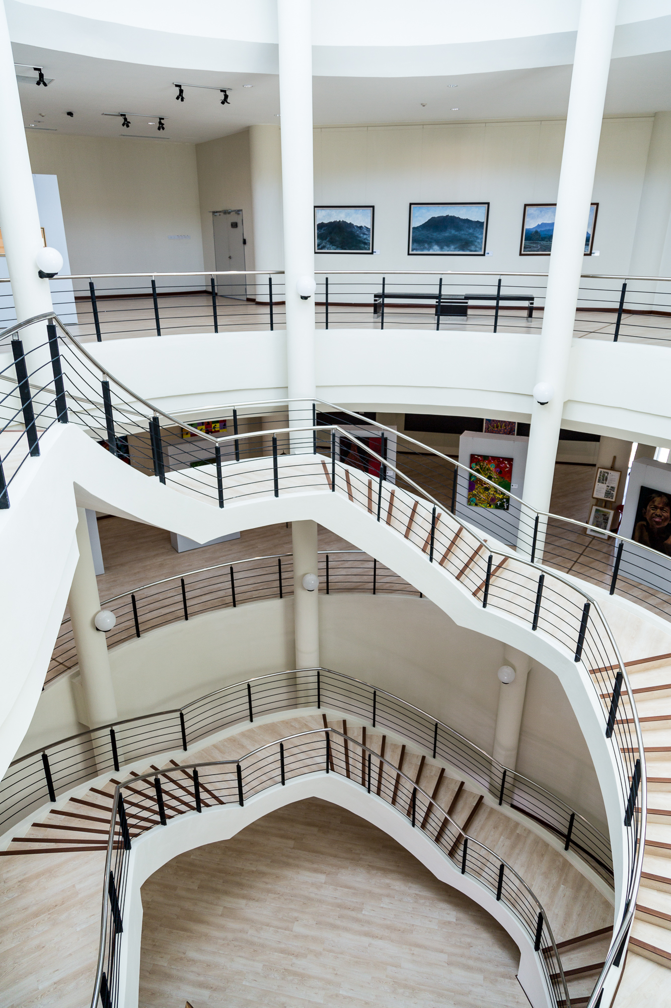 Kota Kinabalu, Sabah: Balai Seni Lukis Sabah (Sabah Art Gallery)